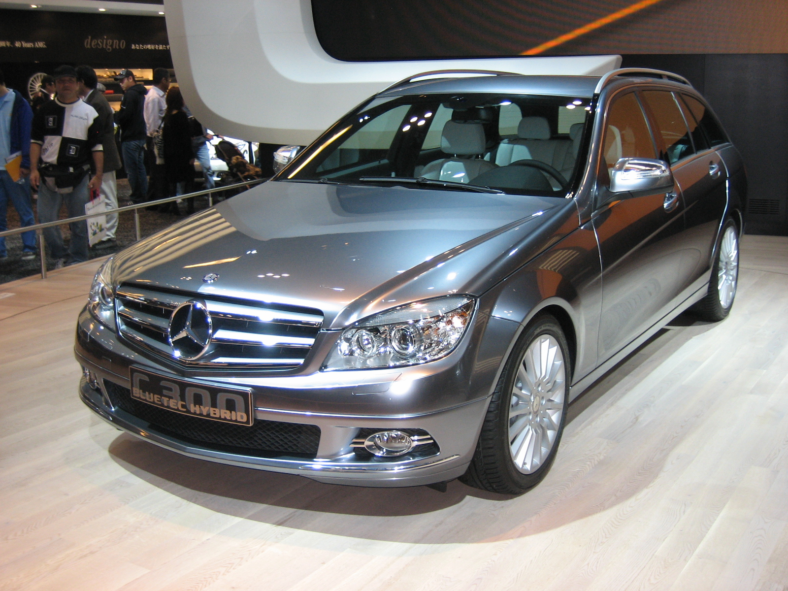 Mercedes-Benz C300 Bluetec Hybrid in Tokyo motor show 2007